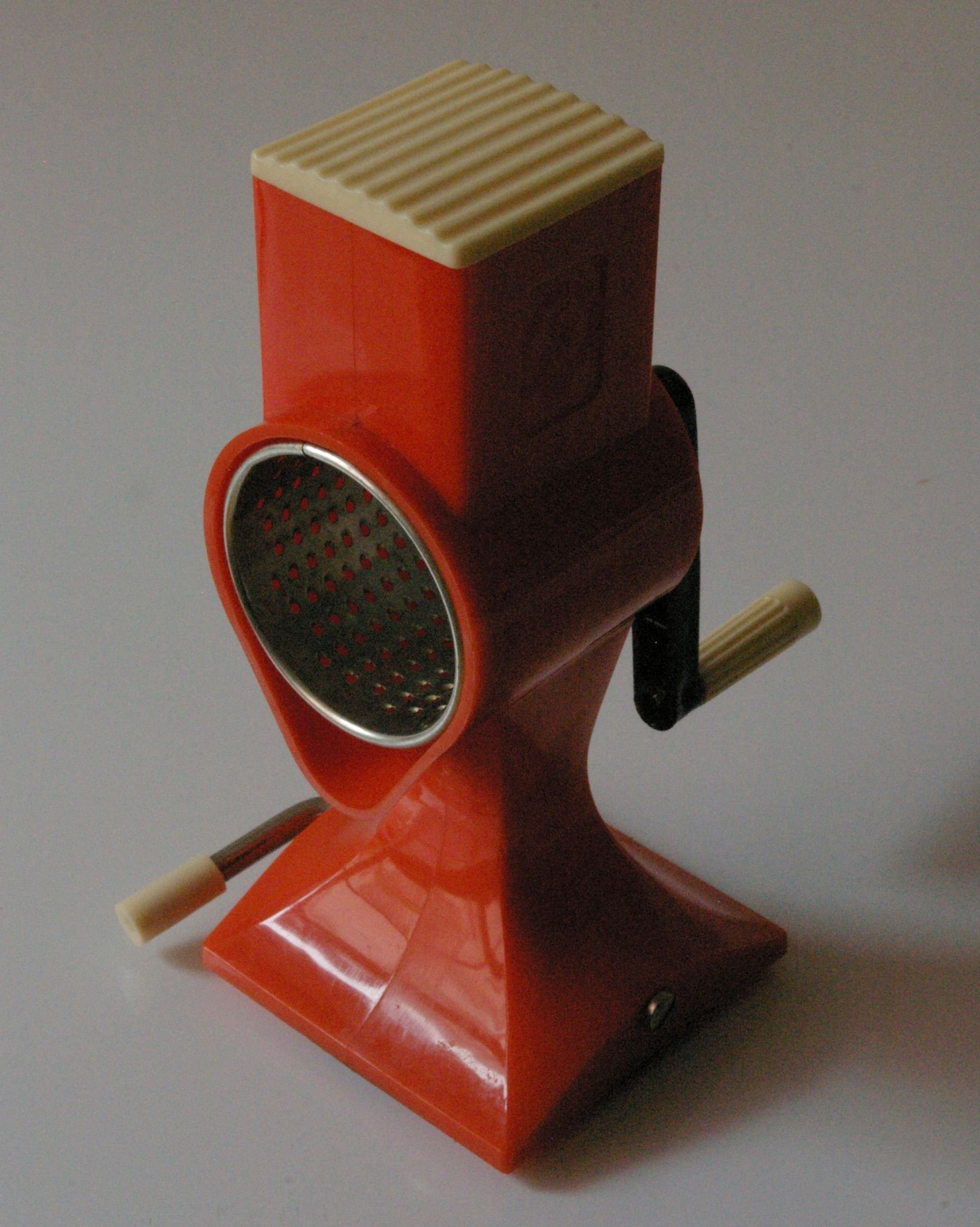 Plastic almond grinder, made in the GDR (WSM Klingenthal, late 60-ies)